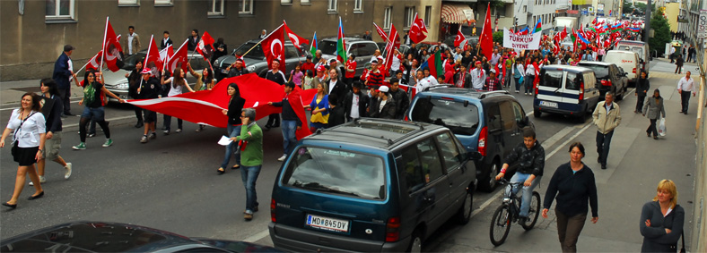 Austria Turkish day (Vienna)